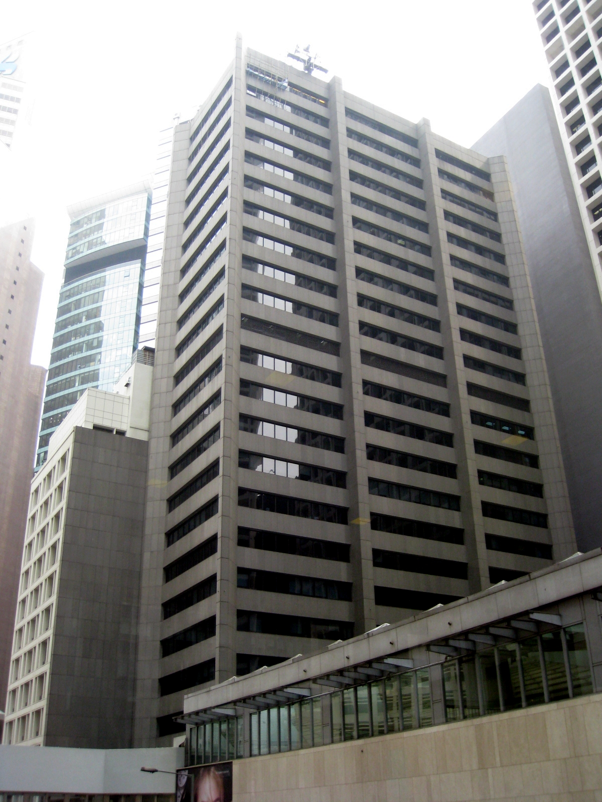 The Bank Of East Asia Building in Central, Hong Kong